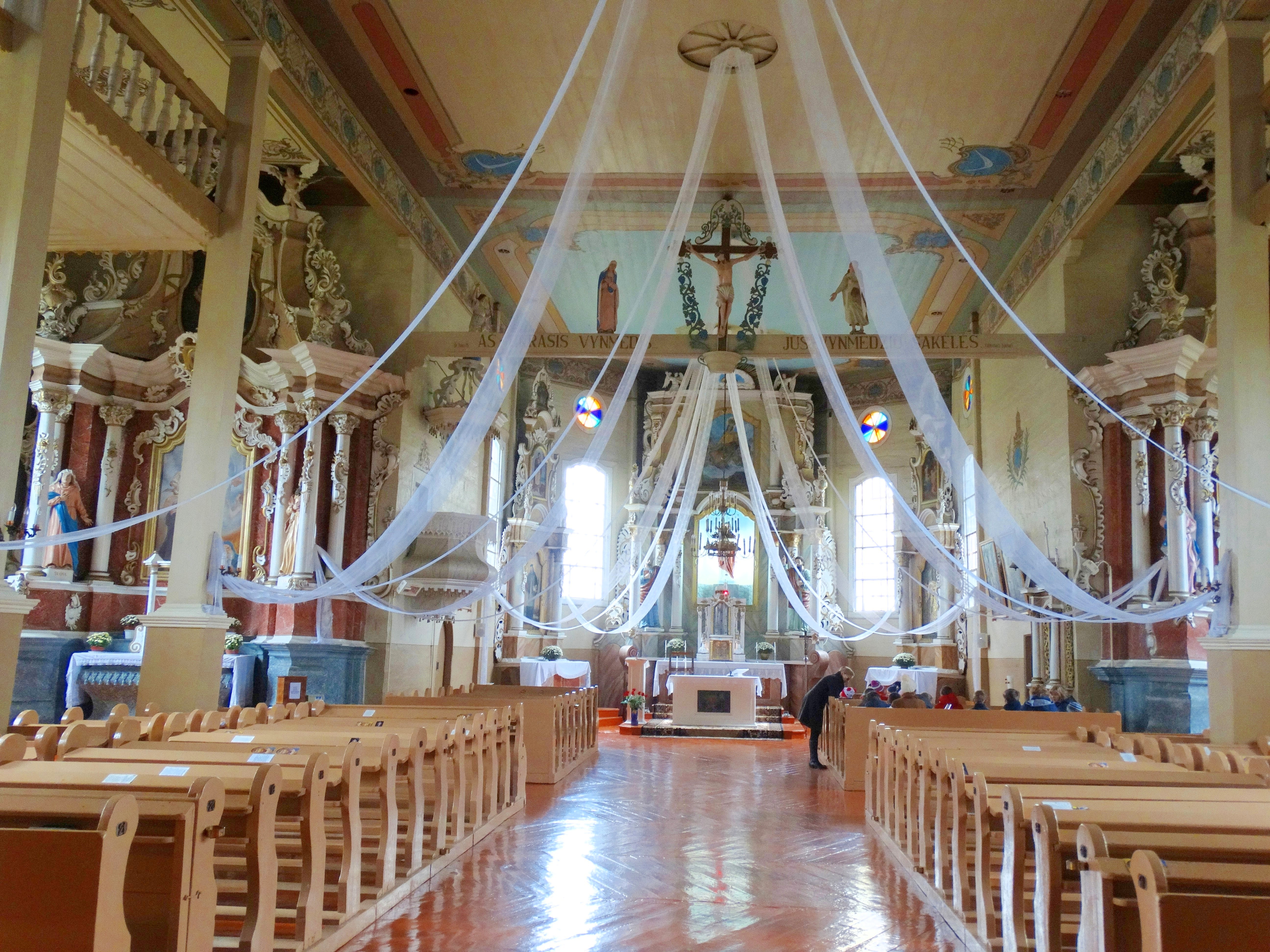 Interior, Church of the Assumption of The Holy Virgin Mary, Seda, Mažeikiai district, Lithuania